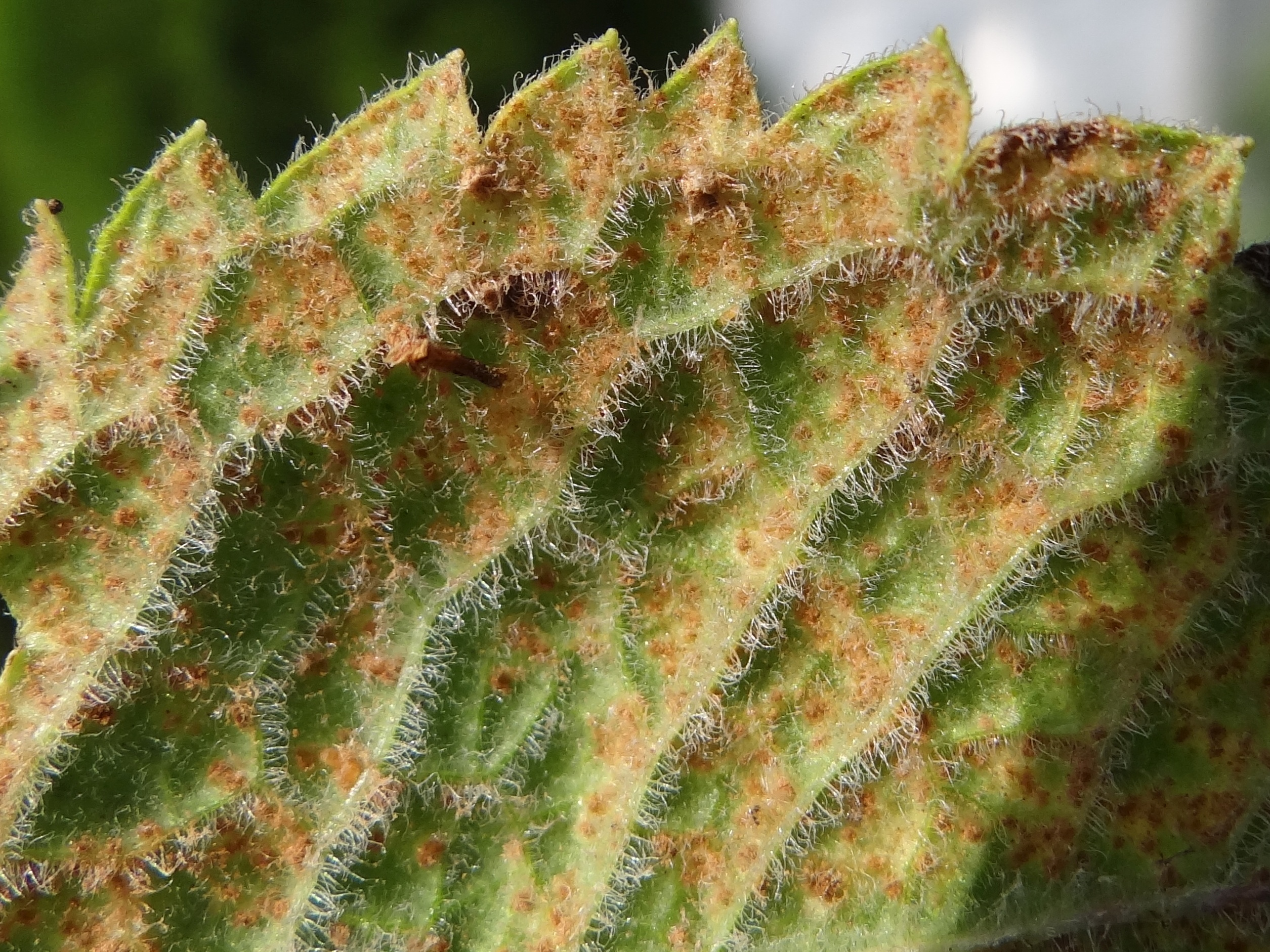 Puccinia menthae on Mentha sp.